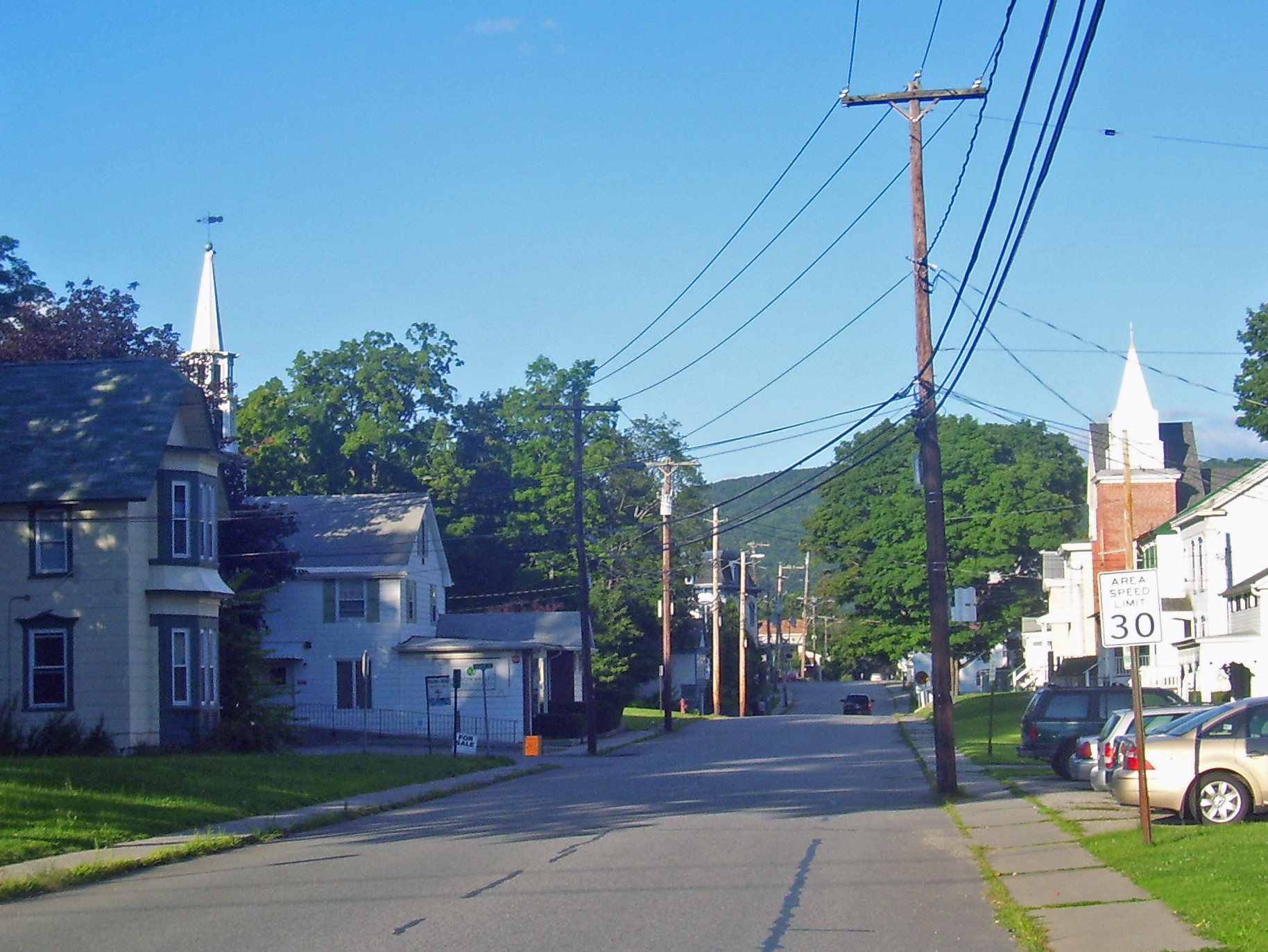 Dover Plains, NY, USA, seen from NY 22 looking east